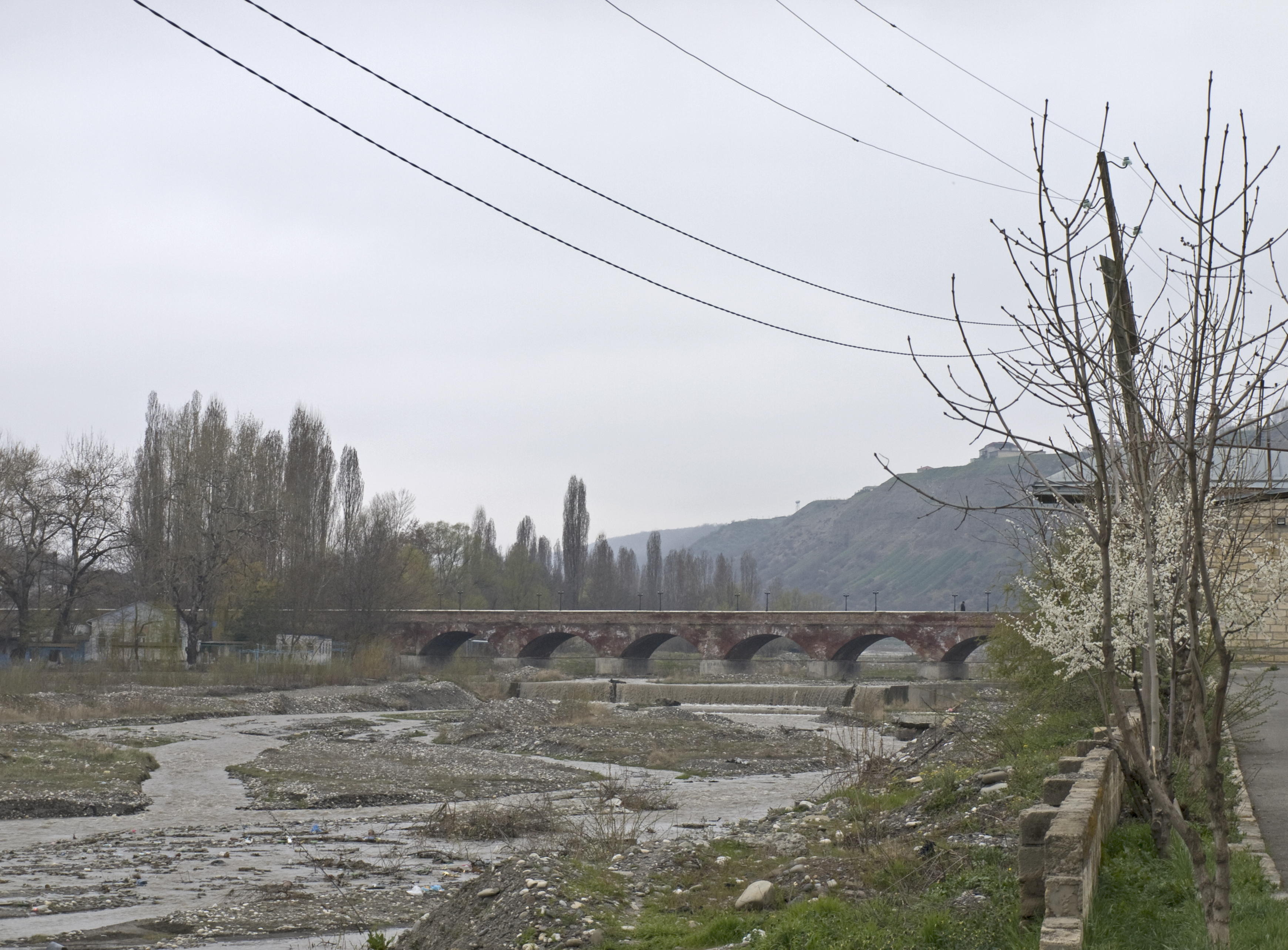 The historic bridge over the Qudyalçay connecting Quba (left) and Qırmızı Qəsəbə (Krasnaya Sloboda, right)